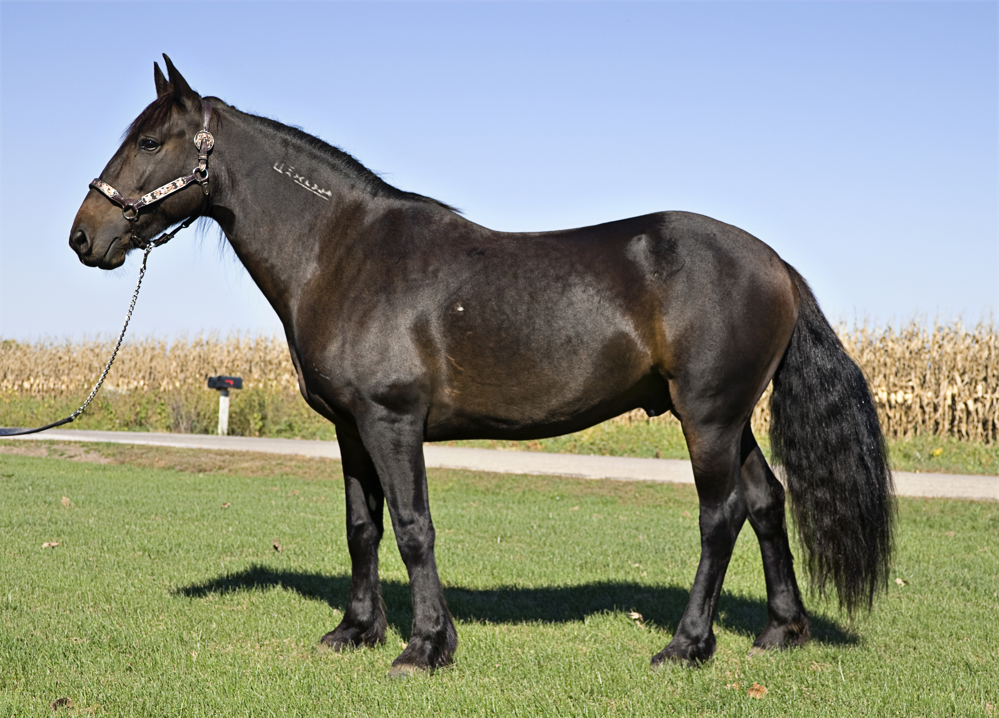 Conformation side shot of Mustang gelding adopted from the Bureau of Land Management.